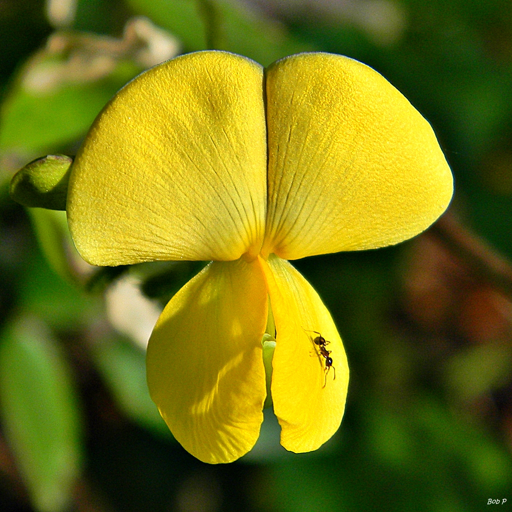 The humble Cow-pea...again. This one lives at Frenchman's Forest Natural Area in Palm Beach County. This plant is a larval host for the cassius blue, gray hairstreak and long tailed skipper. The flower above is currently being rented by A. Ant.